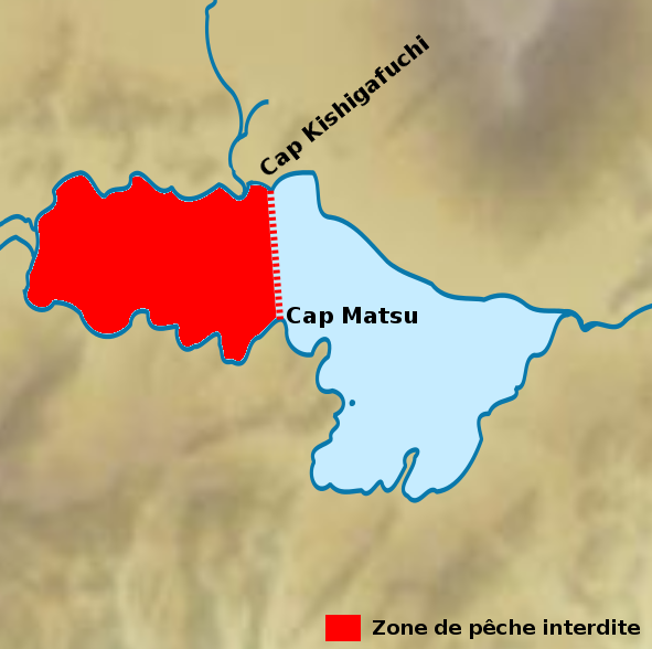 Japan: relief map of Lake Chuzenji in Nikkō (Tochigi Prefecture).